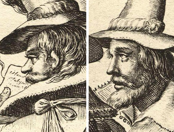 Robert and Thomas Wintour, cropped from a contemporary engraving of the Gunpowder Plotters. The Dutch artist probably never actually saw or met any of the conspirators, but it has become a popular representation nonetheless.